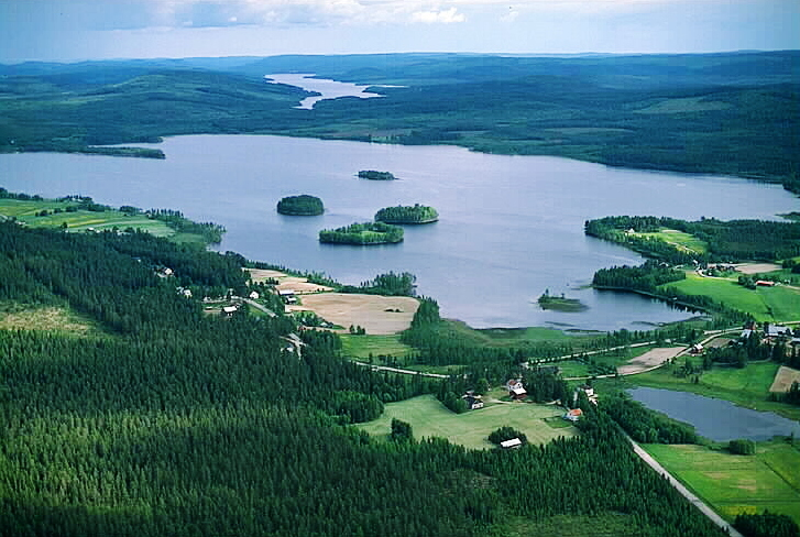 Myckelgensjösjön in Örnsköldsvik municipality, Västernorrland county, Sweden